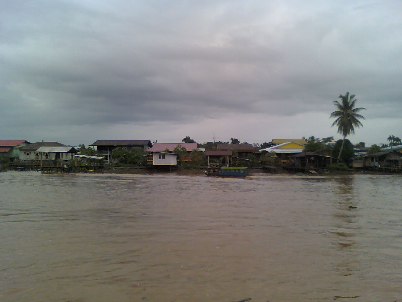 Kg. Brunei in Dalat, Sarawak.